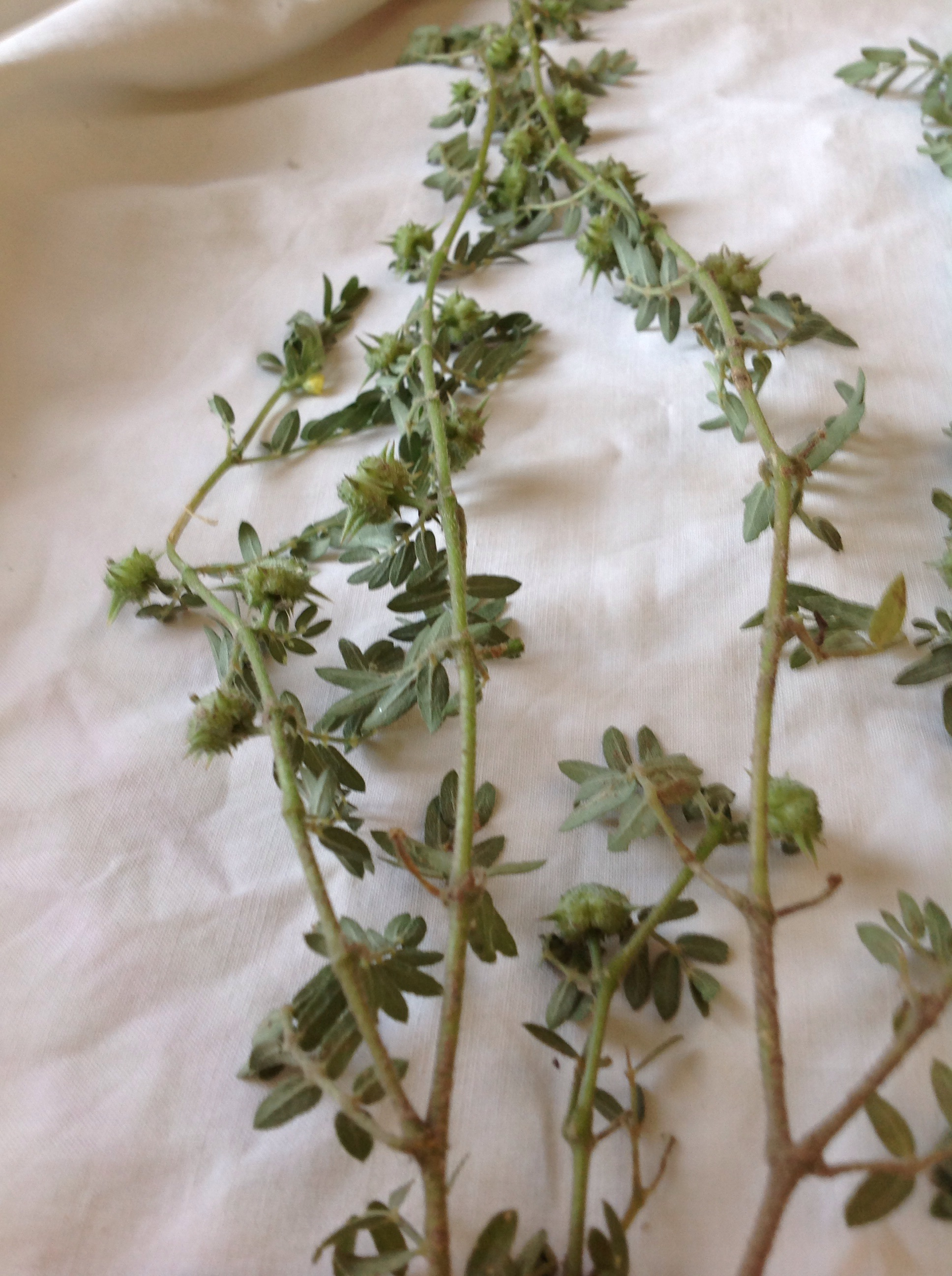 Climber plant is shown with its thorny ball like fruitsਪੰਜਾਬੀ: ਭੱਖੜੇ ਦੀ ਵੇਲ ਨੂੰ ਗੇਂਦਾਕਾਰ ਫਲਾਂ ਨਾਲ ਲੱਦਿਆ ਦਿਖਾਇਆ ਗਿਆ ਹੈ।